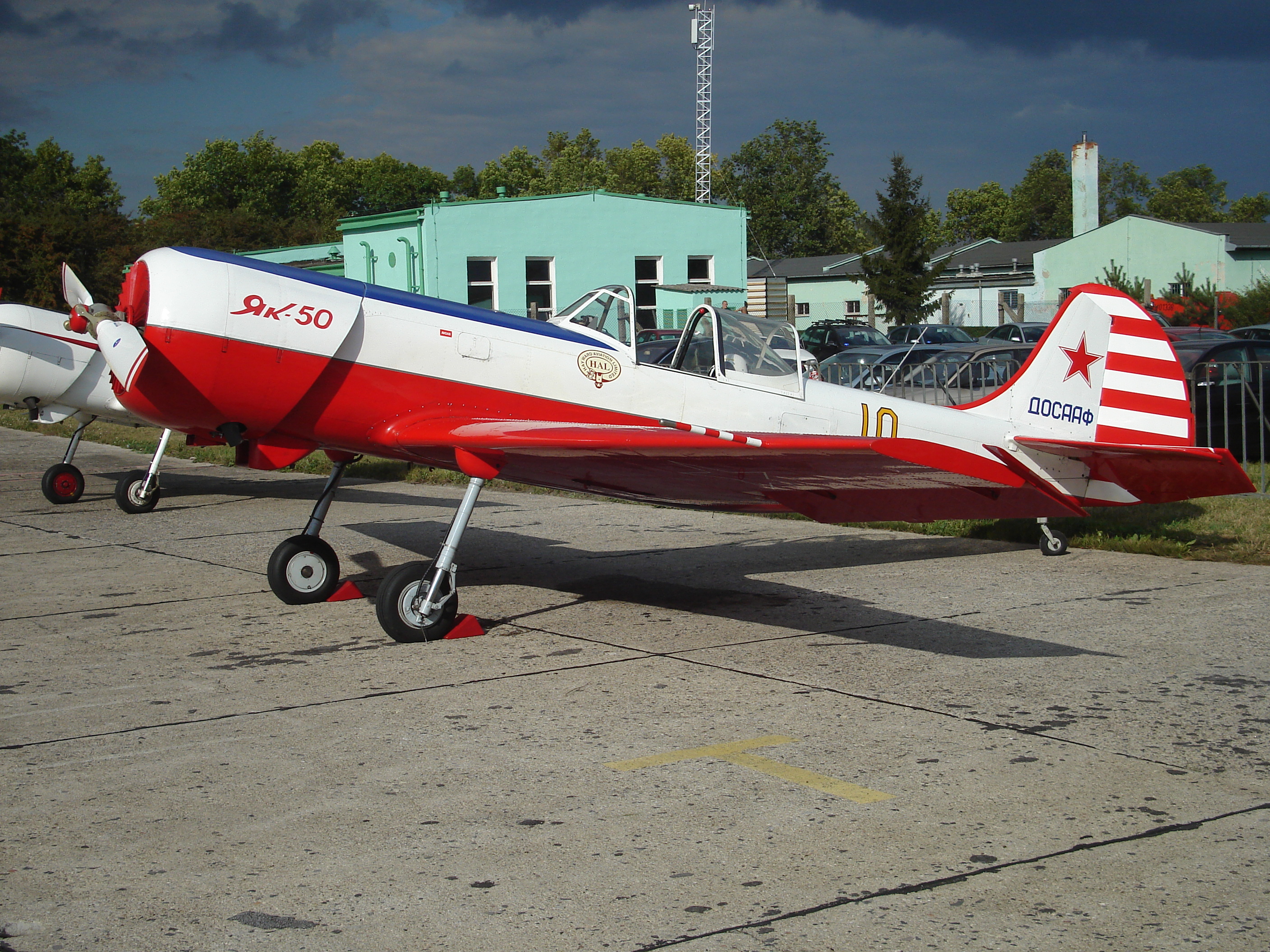 Picture of Yak-50, Radom Air Show 2007